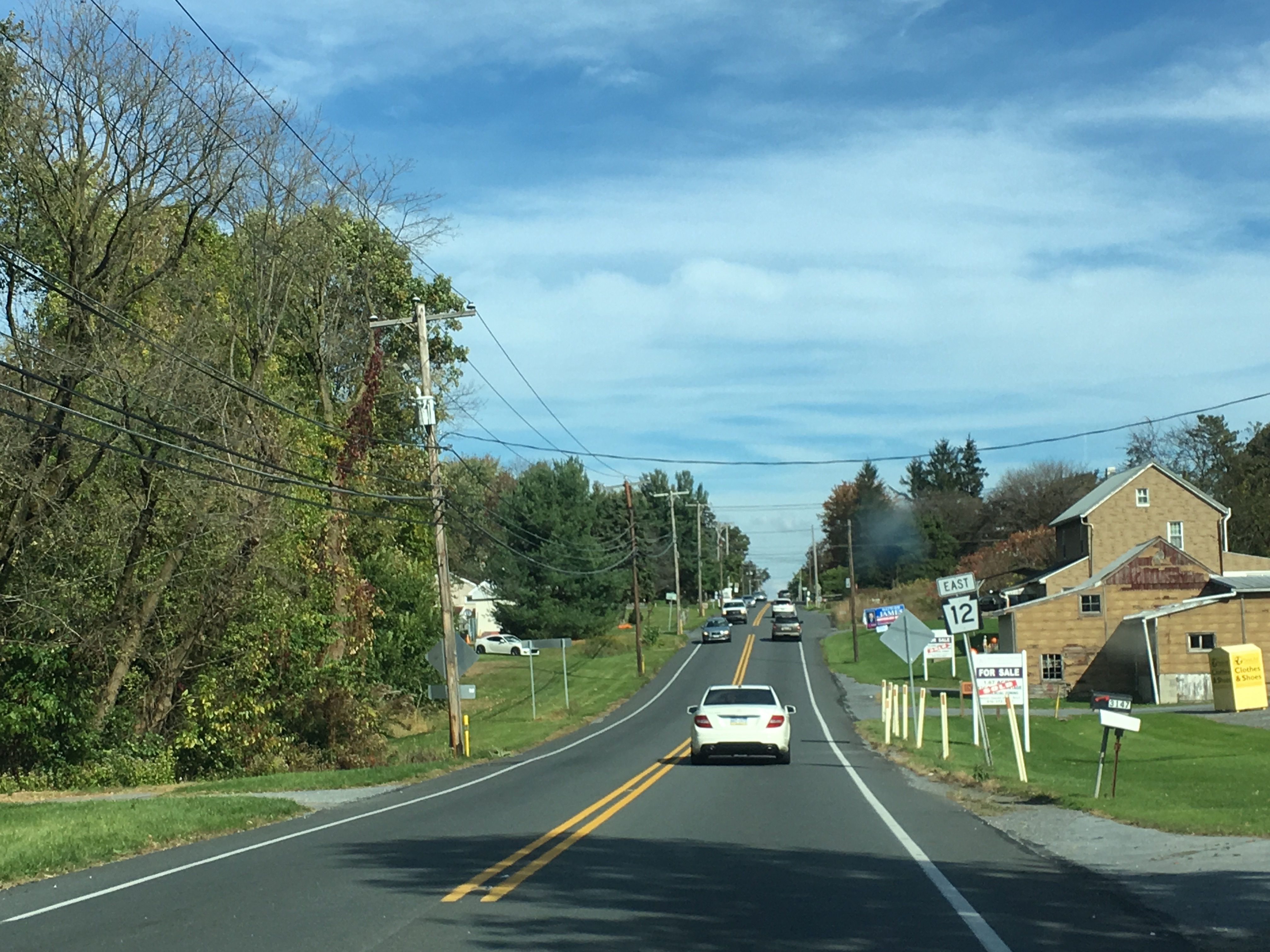 Eastbound Pennsylvania Route 12 (Pricetown Road) past the intersection with Mount Laurel Road in Alsace Township, Pennsylvania